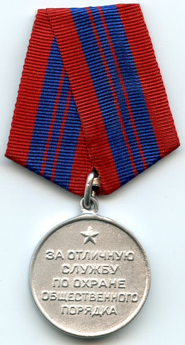 Soviet Medal For Distinction in the Protection of Public Order